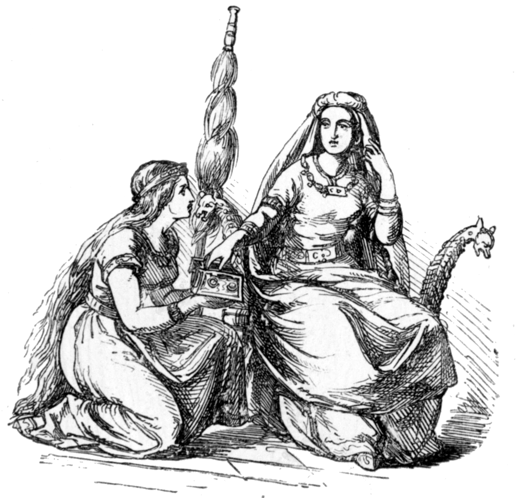 Frigg and one of her handmaids, presumably Fulla.